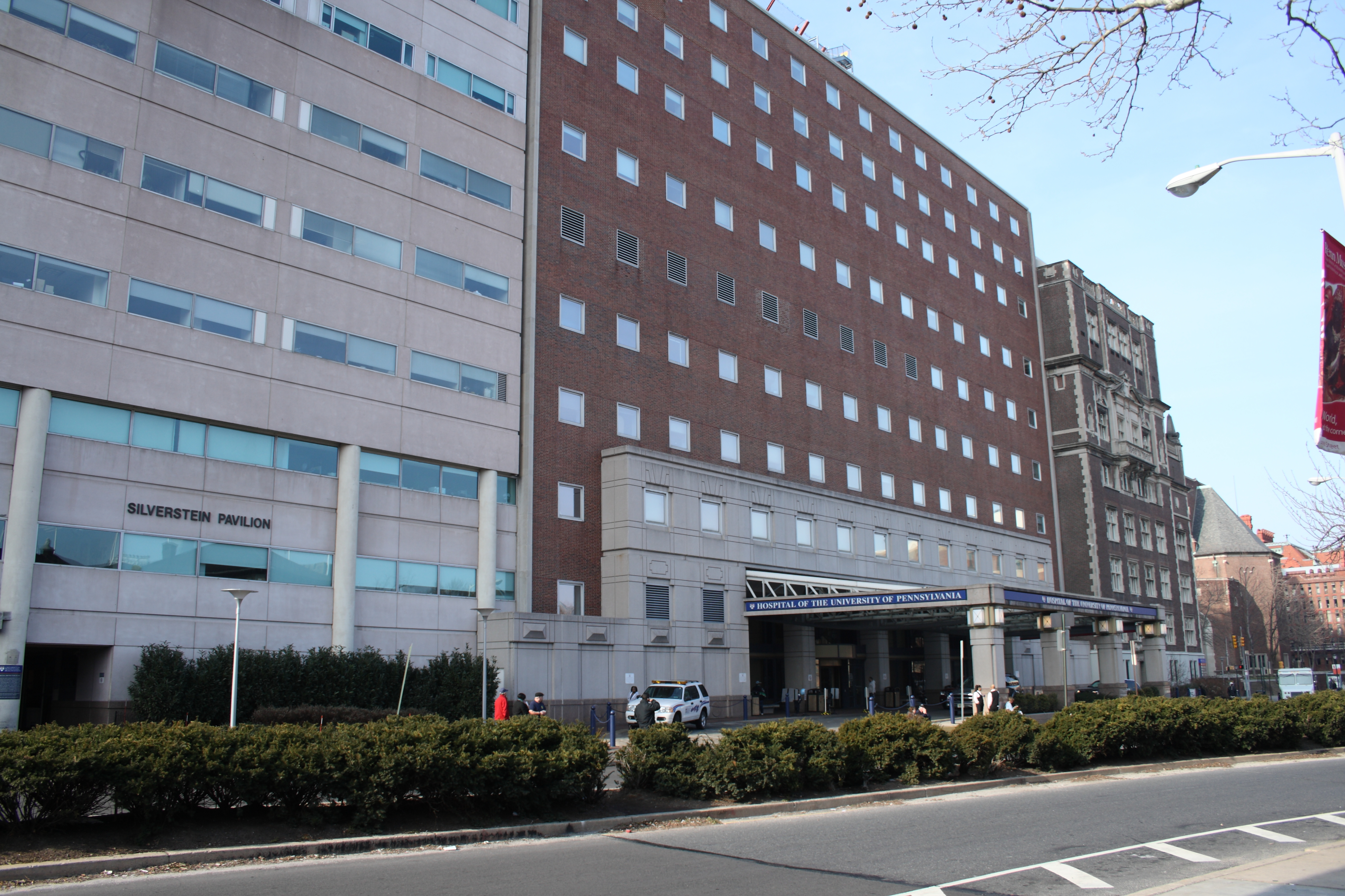 Front entrance and Silverstein Pavilion of the Hospital of the University of Pennsylvania (HUP). Facing North.